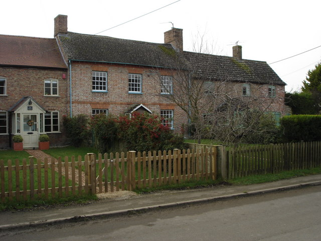 Cottages in the village of Slimbridge